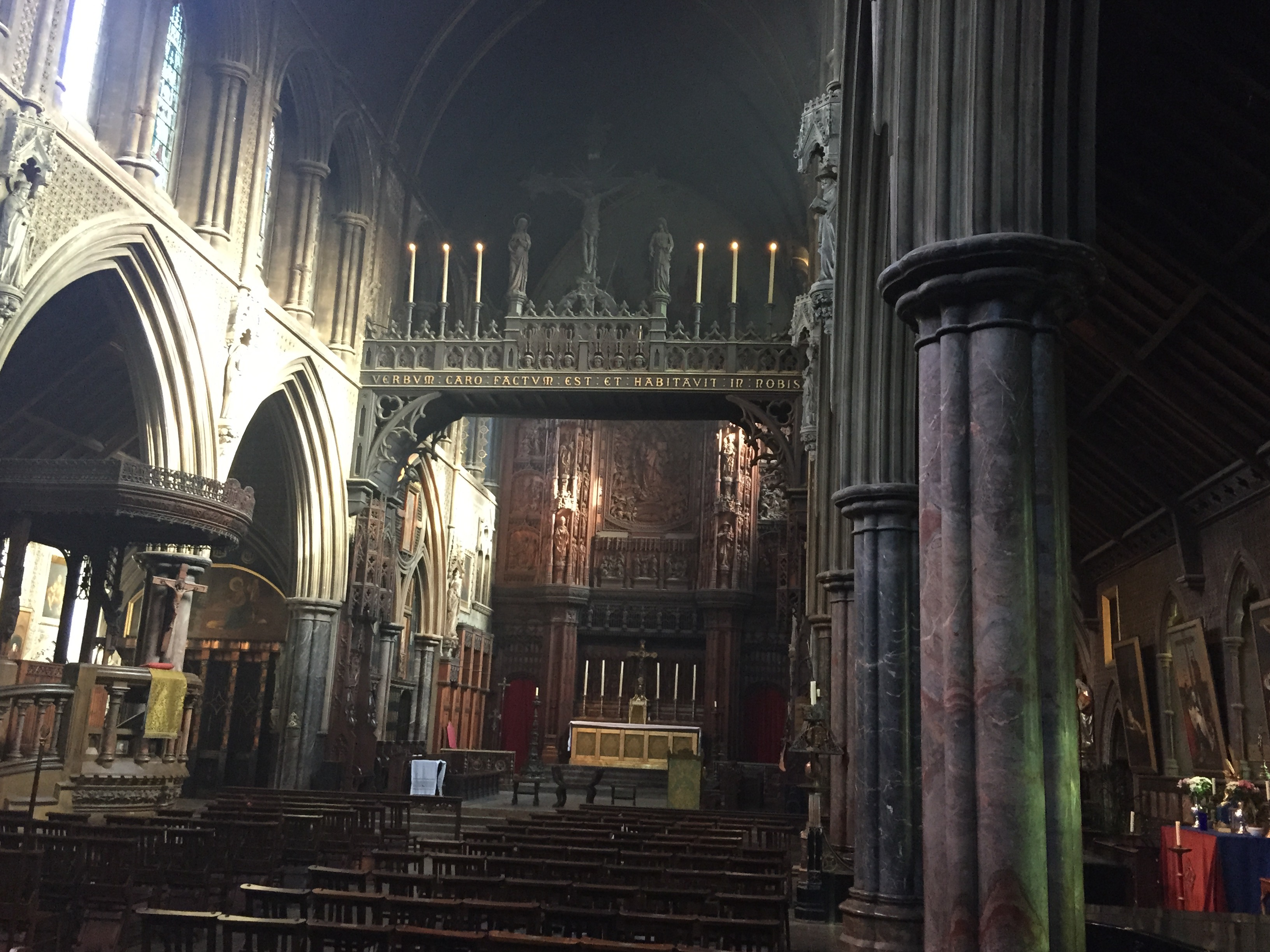 St Cuthberts East and Rood listed building No. 266119